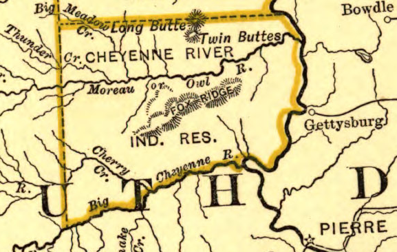 Derivative of Northern Pacific Railroad map circa 1900.jpg showing the Cheyenne River Indian Reservation in South Dakota